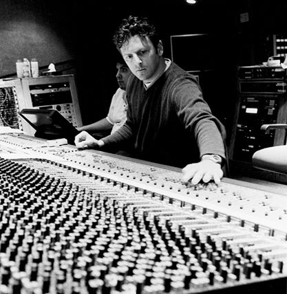 Producer/Engineer Michael James mixing Robert Hicks' "Textures In Hi-Fi" album at Westlake Audio in 1999.